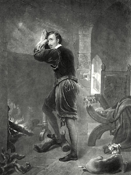 Philip Howard, 20th Earl of Arundel (1557-1595)